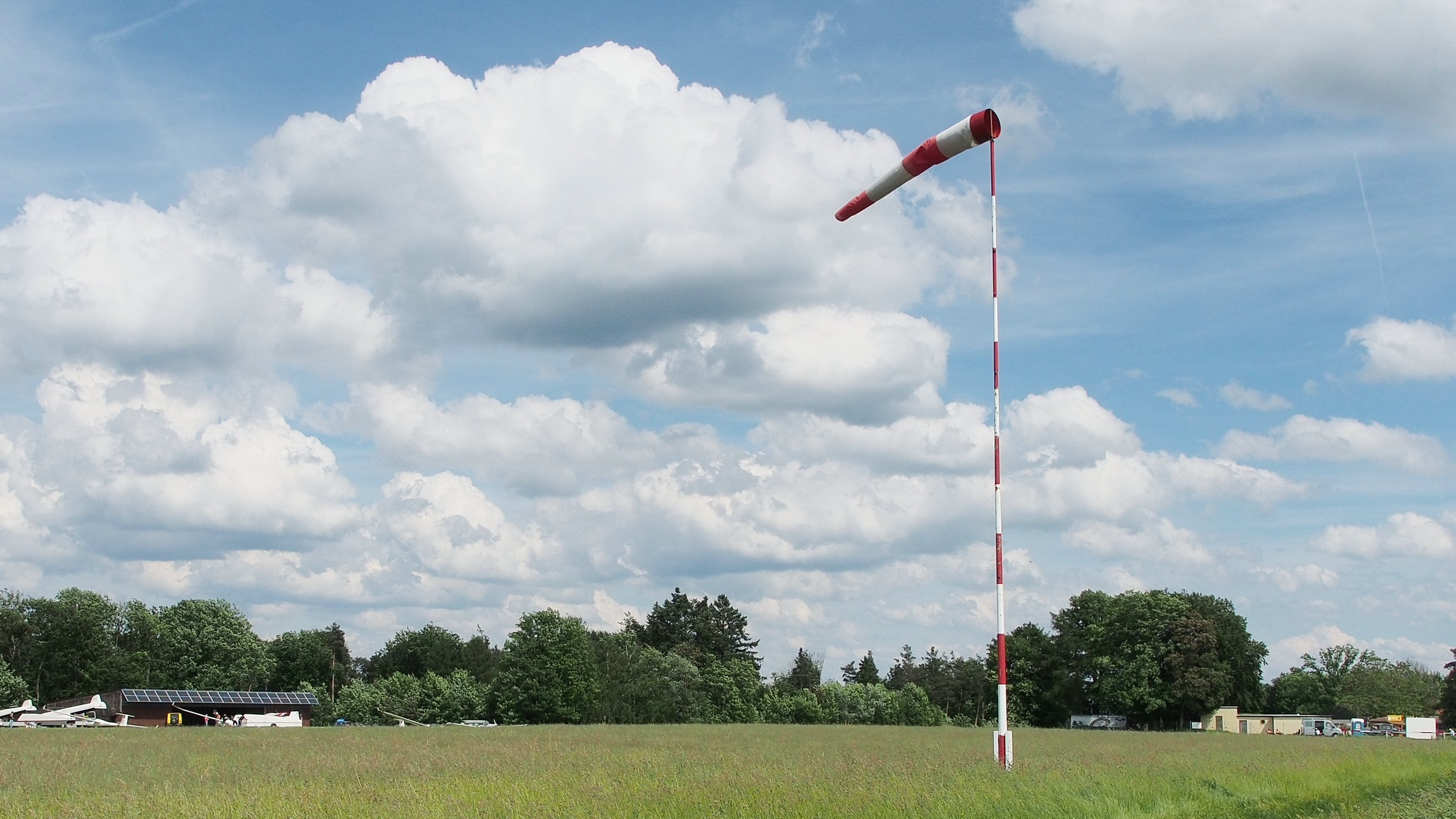 Windsock on a glider airfield (Esslingen-Jägerhaus, Germany)